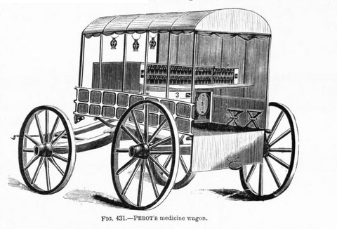 Illustration from The Medical and Surgical History of the War of the Rebellion (USG Printing Office, 1870-88) - Perot's medicine wagon - part III vol 2 pag 917